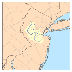 This is a map of the Raritan river watershed. Rivers shown are the north and south branches of the Raritan river and the Millstone river. I, Karl Musser, created it based on USGS data.